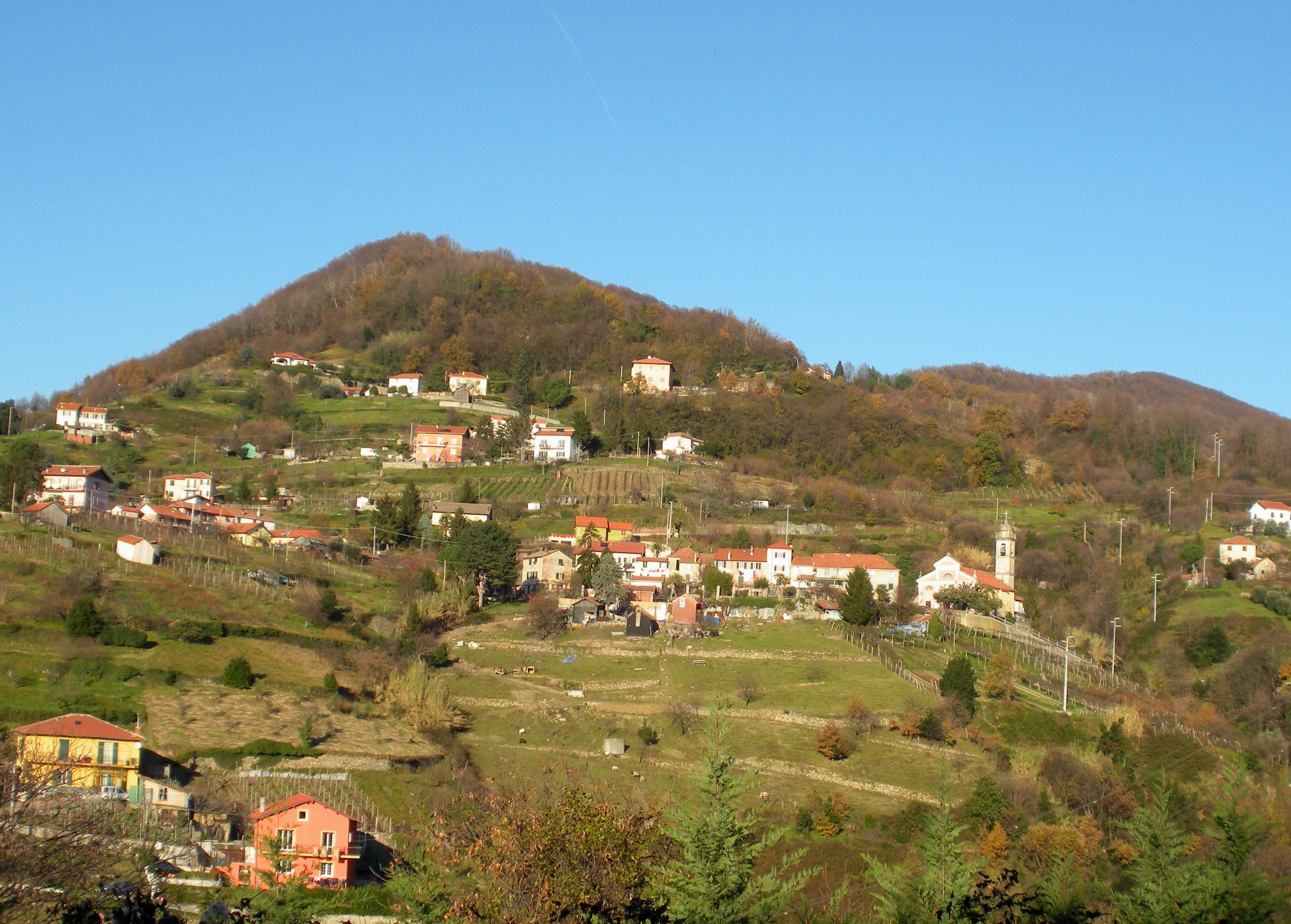 Sant'Olcese (province of Genoa, Italy), the village of Comago